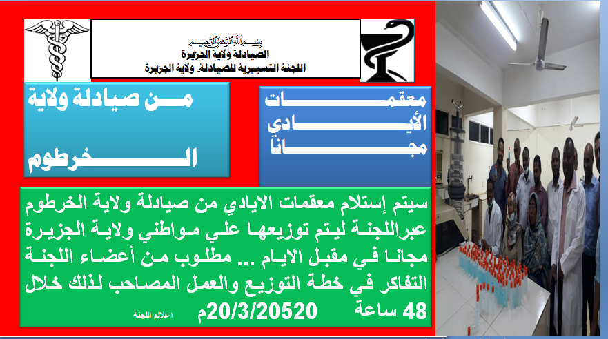 Efforts to provide hands sanitizer freely to people to help in prevention from corona virus spread